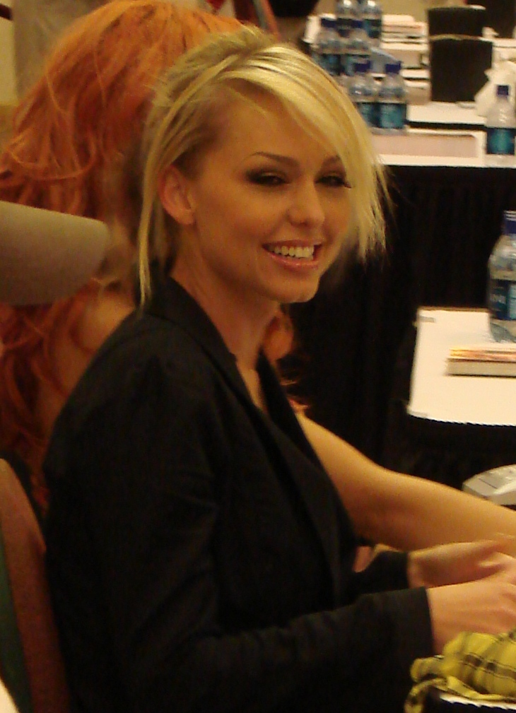 Leticia Cline at TNA Total Nonstop InterAction in St. Louis, MO on April 14 2007